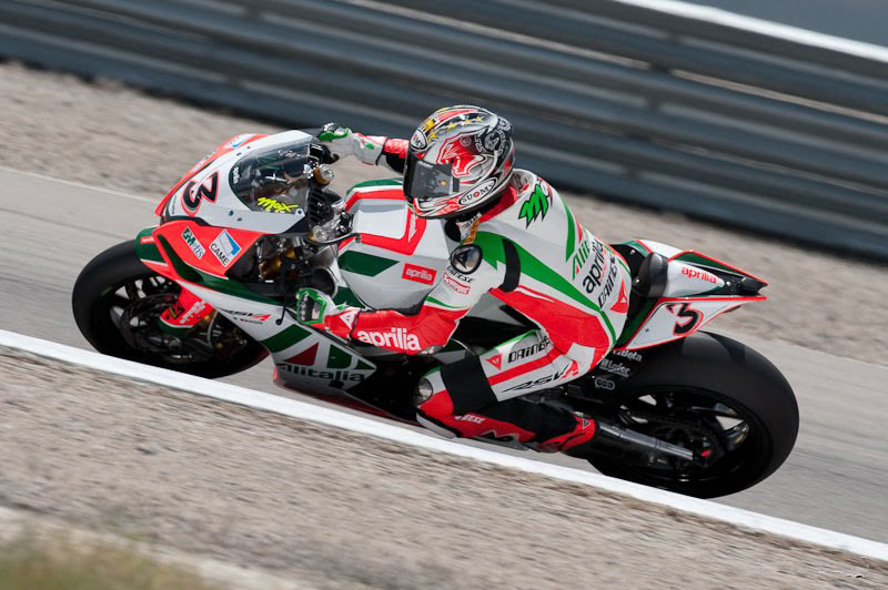 Max Biaggi 2010 SBK Miller